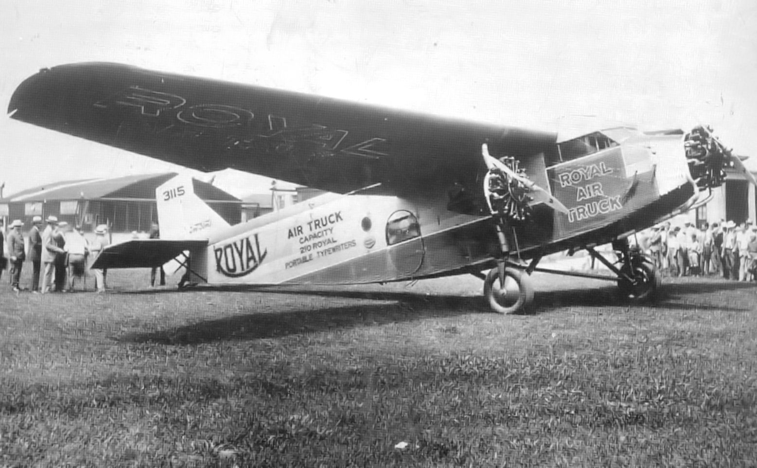 Air freight service began at the Allentown Airport in August 1927. The Royal Air Truck Ford Tri-Motor of Hartford Connecticut brought a shipment of typewriters to Frank Haberle, who owned an office equipment business at 113 North Sixth Street. That address today is an Allentown Parking Authority deck.